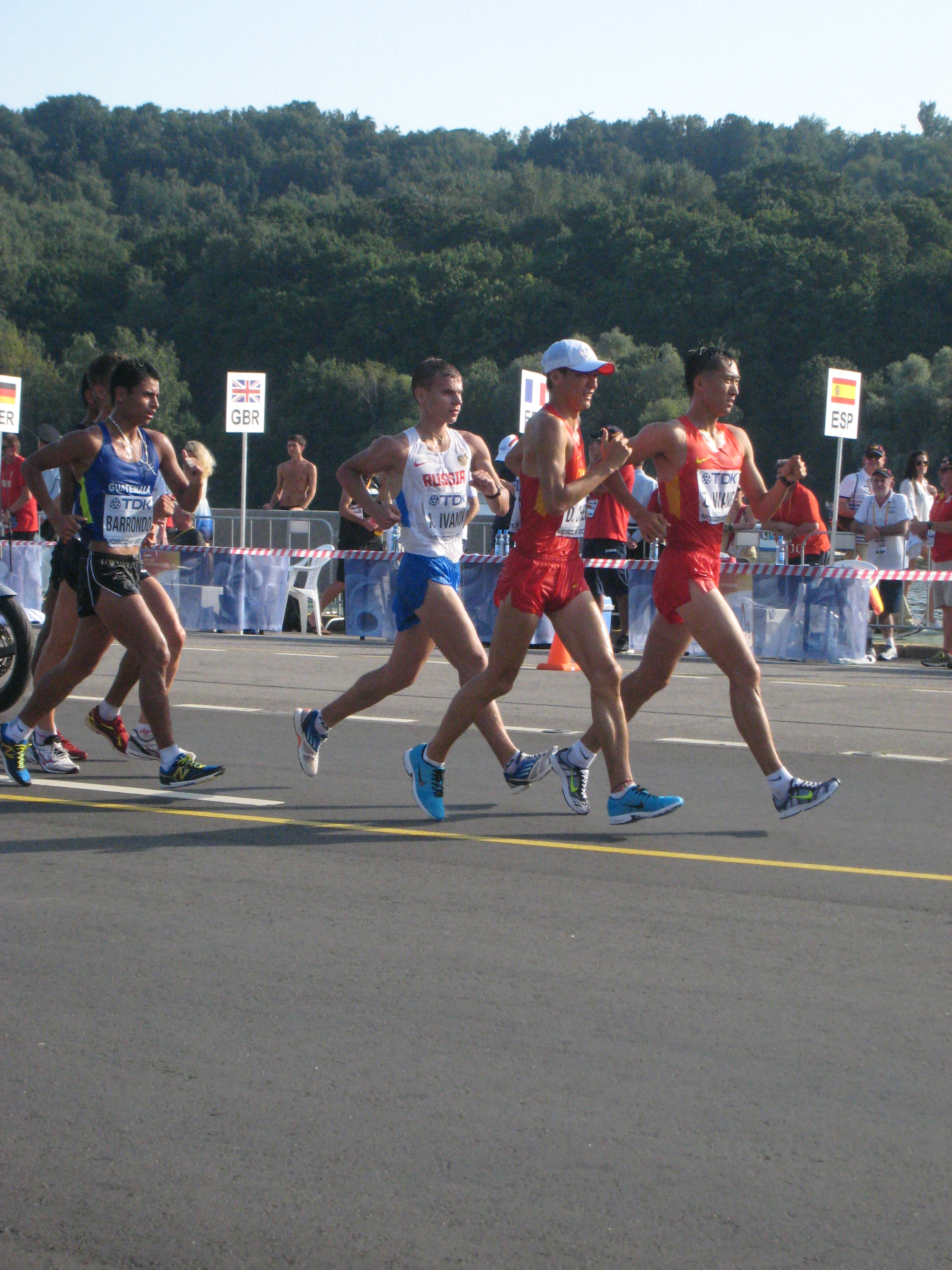 2013 IAAF World Championships in Moscow. 20 km walk men. Erick Barrondo (GUA), Alexander Ivanov (RUS), Ding Chen (CHN), Zhan Wang (CHN)